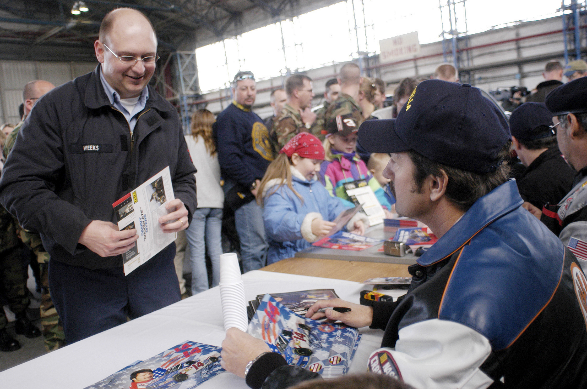 Naval Air Station Sigonella, Italy (Jan. 30, 2003) -- Aviation Structural Mechanic 1st Class Charles Weeks gets and autograph from NASCAR driver Richard Crawford, during a NASCAR Rally held on board Naval Air Station Sigonella, Italy. NASCAR drivers and crewmembers came out to support the active and reserve forces in the European theater as part of a joint DOD-ESGR Goodwill Tour. The ESGR is the Employer Support of the Guard and Reserves, located in Arlington, Virginia. NAS Sigonella provides logistic and fleet support to U.S. military and NATO forces throughout the Mediterranean and Middle East, while ensuring the highest quality of life for our Sailors and their families. U.S. Navy photo by Photographer's Mate 2nd Class Damon J. Moritz. (RELEASED).